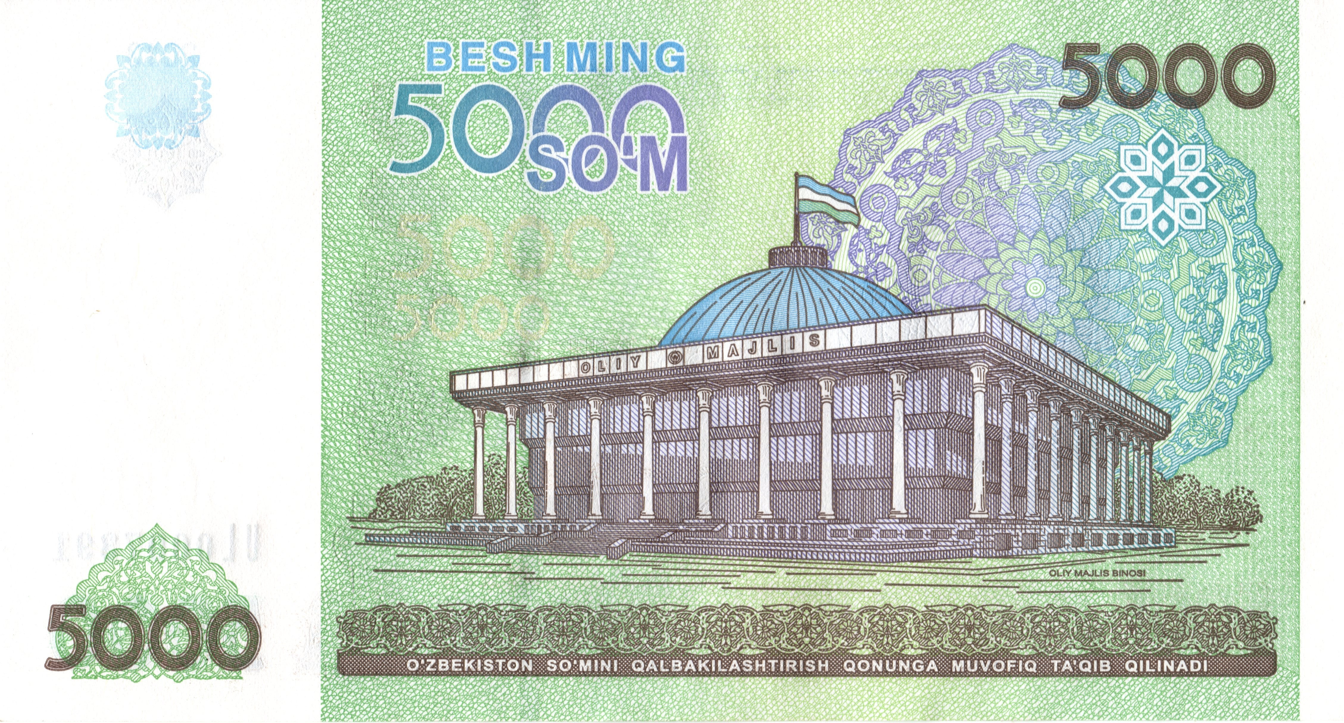 5000 soms of Uzbekistan (2013)